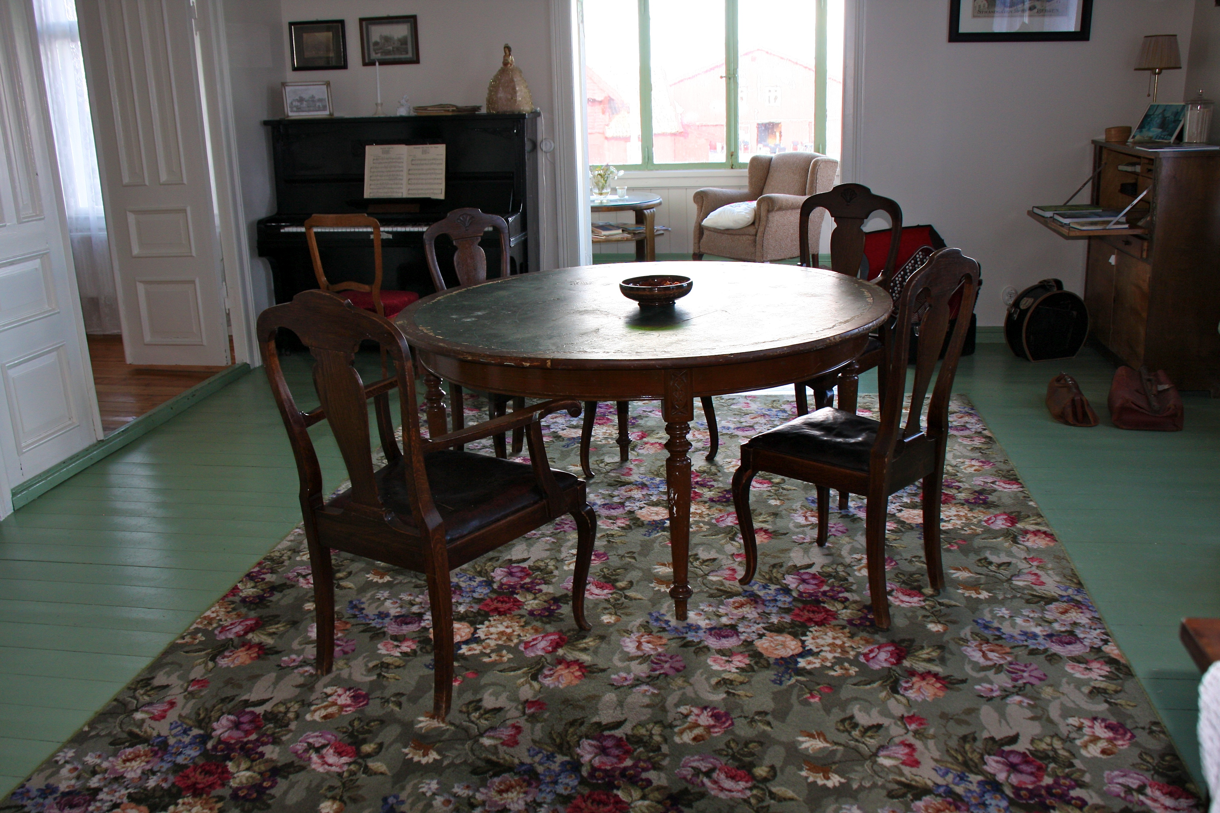 Gulen municipality, Norway.